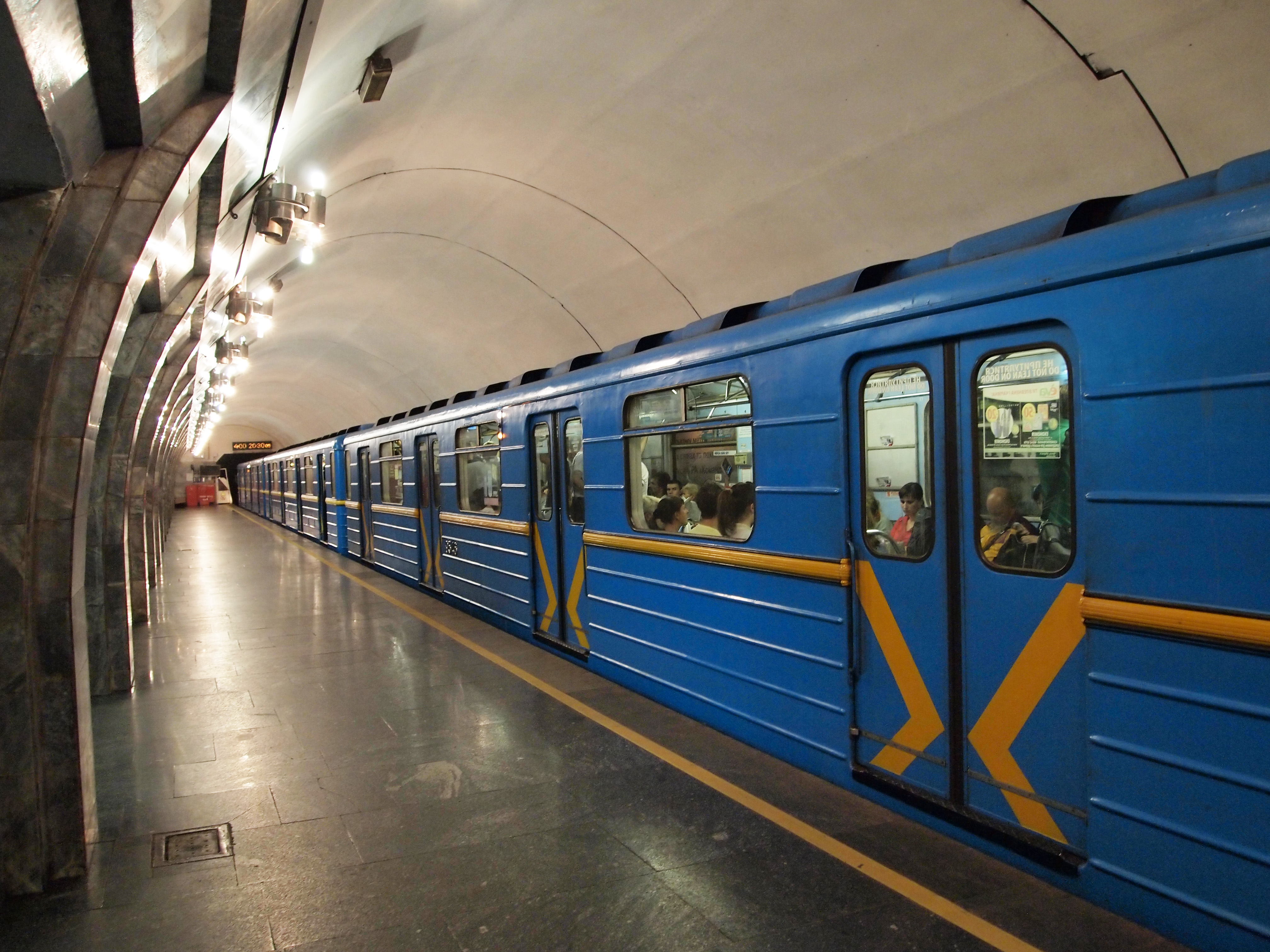 Metro train in Kiev. This photograph was taken with a Olympus E-PL1.